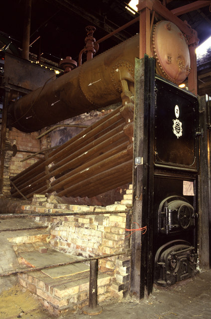 Old boiler At Cambridge Museum of Technology, Cheddars Lane. One of the original Babcock and Wilcox water tube boilers. These were fitted with refuse destructor cells. Town's rubbish was burnt to raise steam to drive the sewage pumps. Using waste to move a different sort of waste. There is nothing new about burning rubbish to produce power. This is 1894 vintage. Removal of a destructor cell exposes the water tube nest and steam drum.